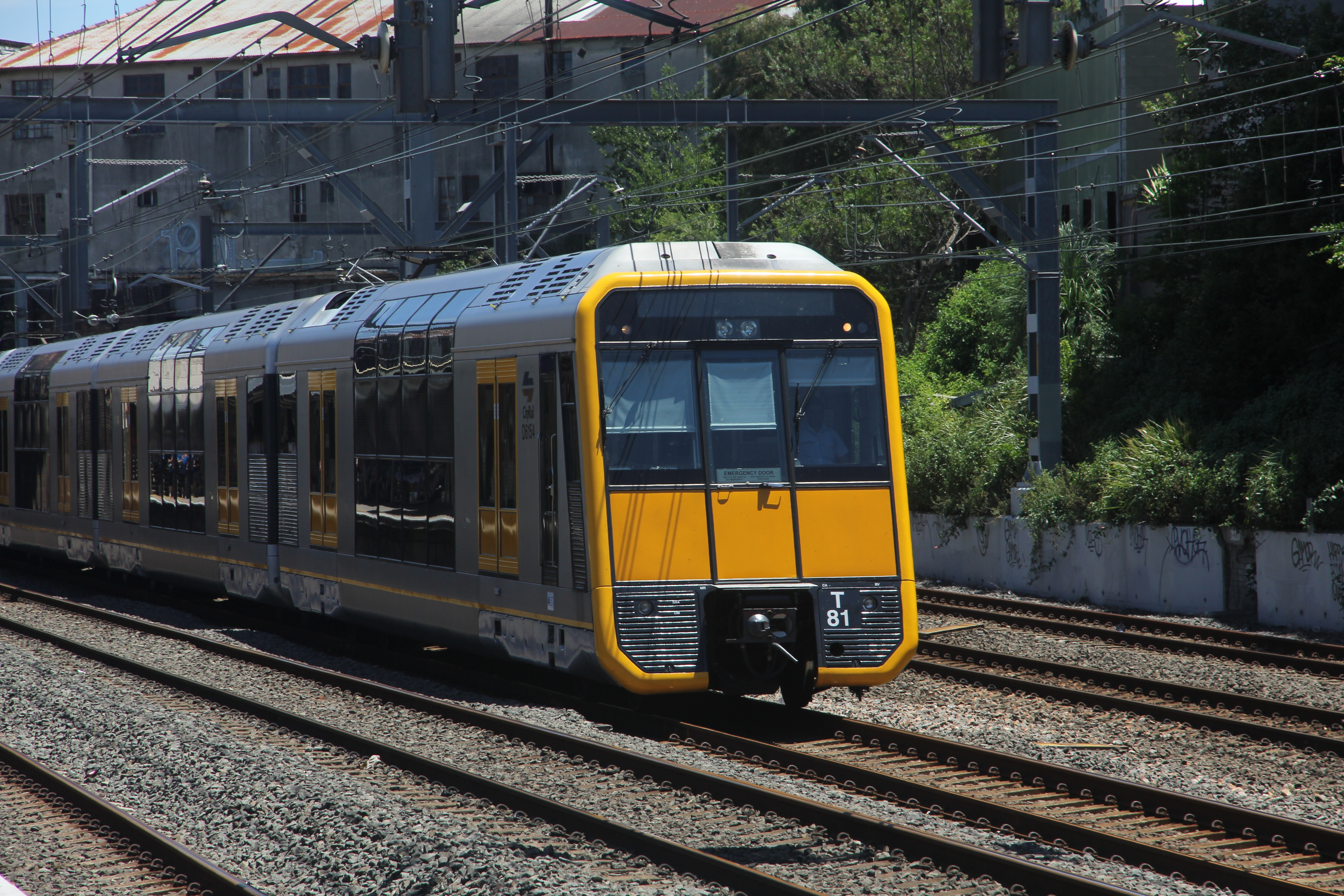 Tangara passing through Newtown.